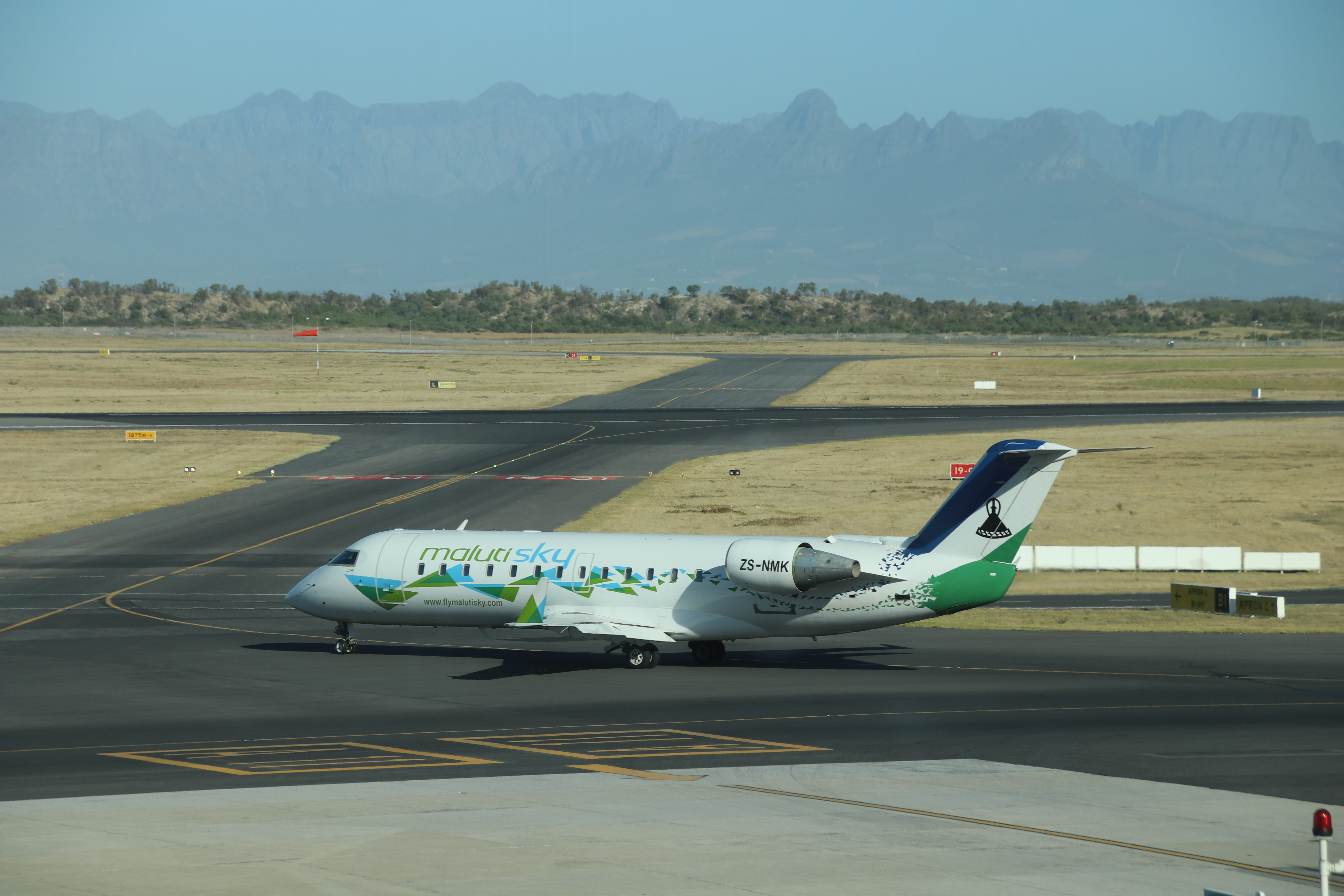 Maluti Sky Bombardier CRJ-200ER (ZS-NMK) at Cape Town International Airport on 26.12.2017